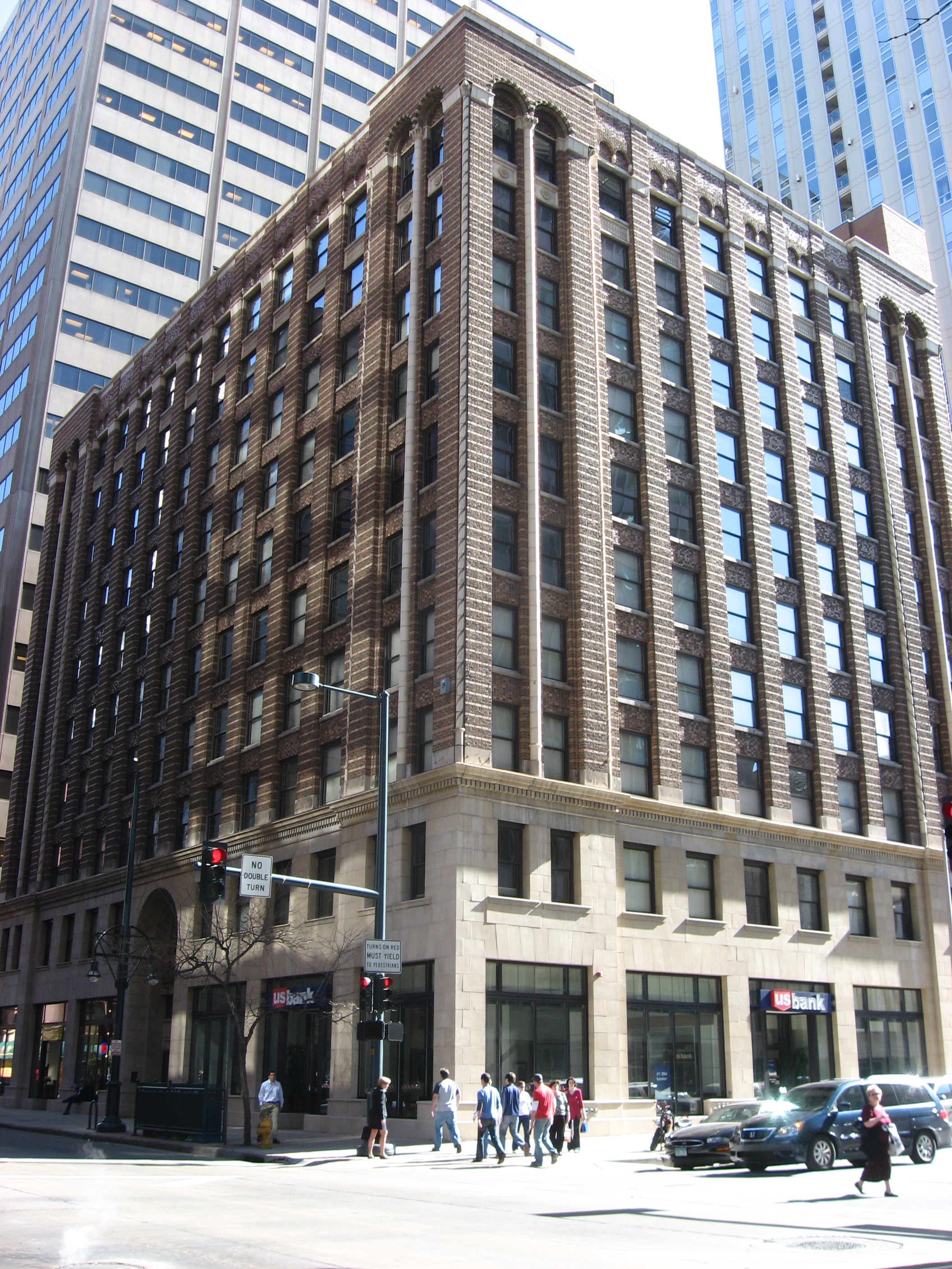 The Midland Savings Building, located at the southern corner of the intersection of Glenarm Place and Seventeenth Street in Denver, Colorado, United States. Built in 1926, the building is listed on the National Register of Historic Places.